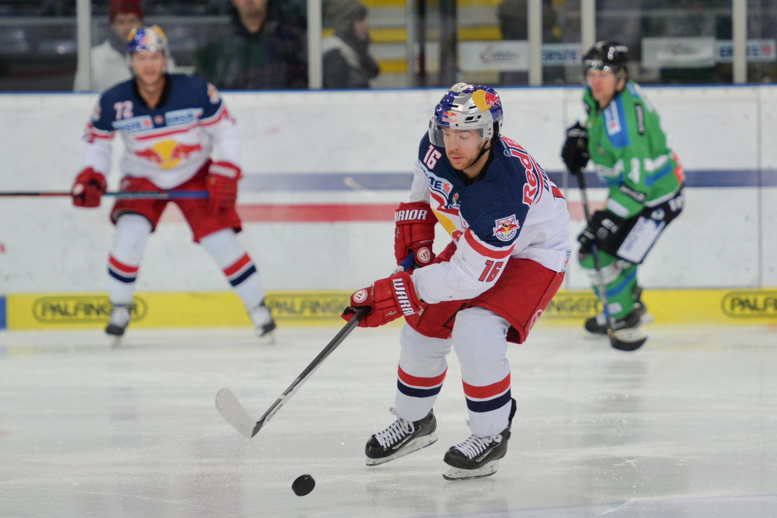 EBEL Red Bull Salzburg vs Olimpija Ljubljana 2016-01-17